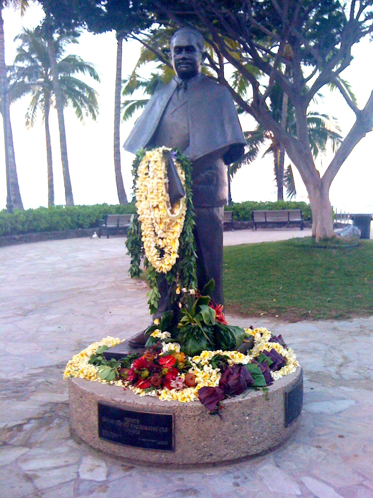 Statue of Prince Kuhio statue in Waikiki.